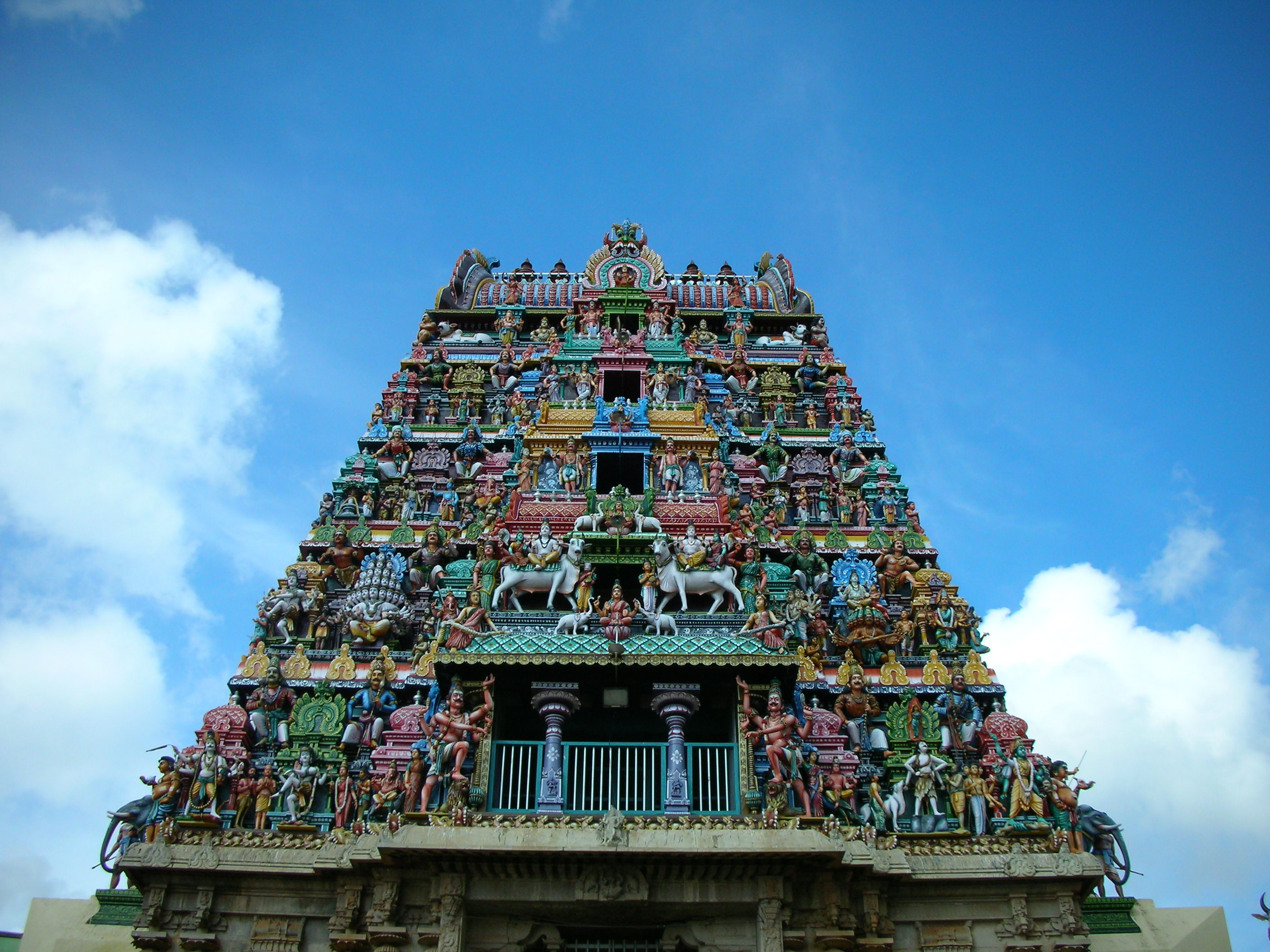 The Gopuram of Shiva Temple, Kottaiyur near Karaikudi